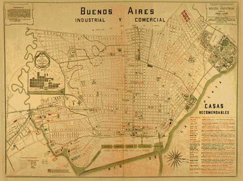 Mapa de la Ciudad de Buenos Aires. 1909.